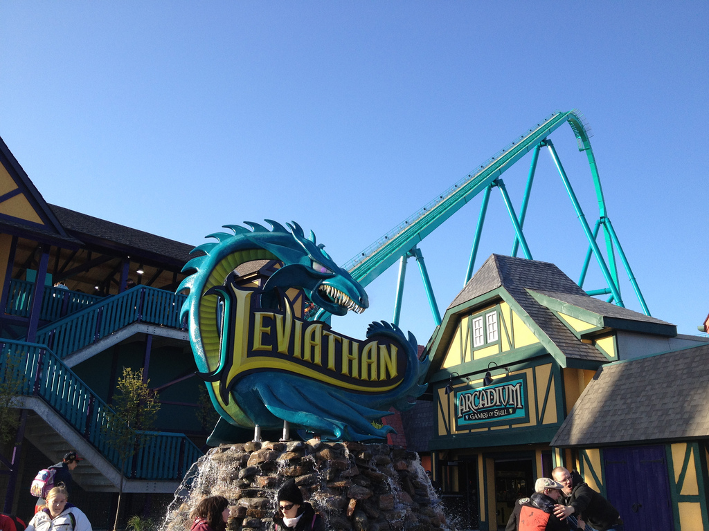 This is a picture of the lift, station, and plaza (including the sculpture) of Leviathan at Canada's Wonderland